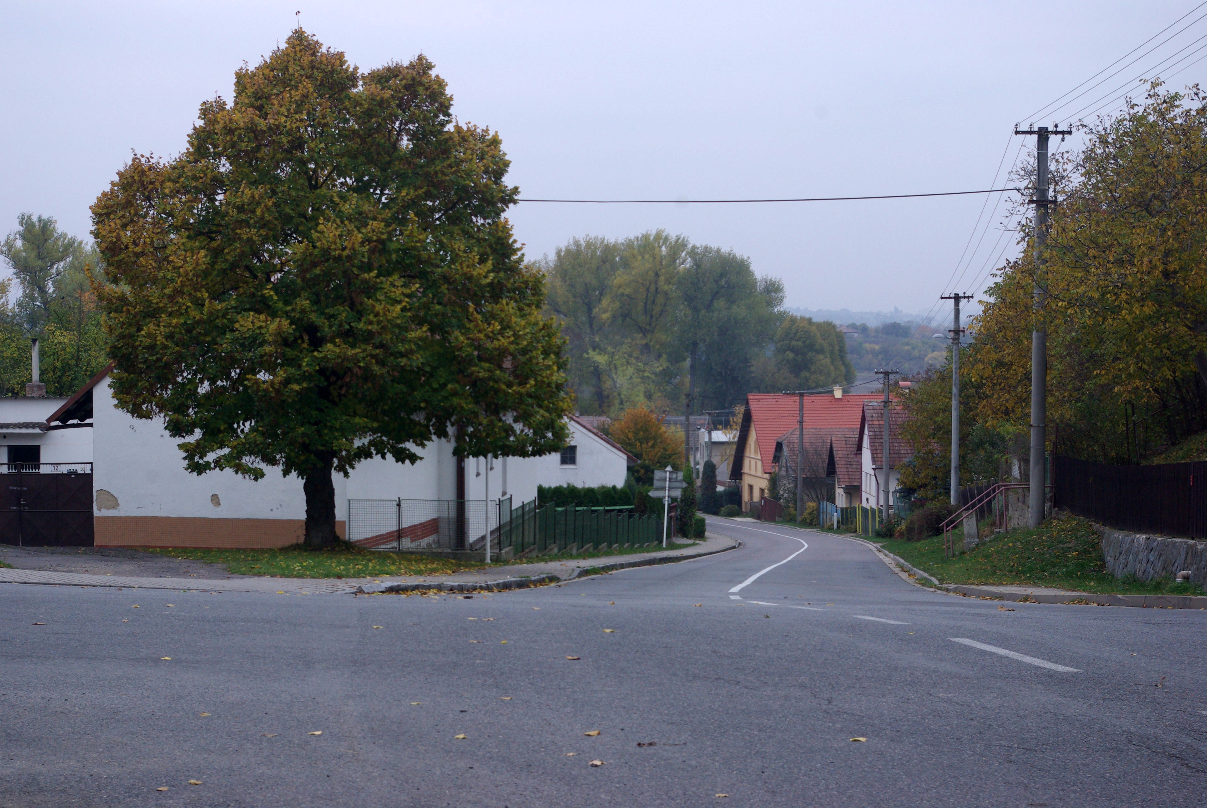 The center of Úhřetická Lhota near Pardubice in the Czech Republic.